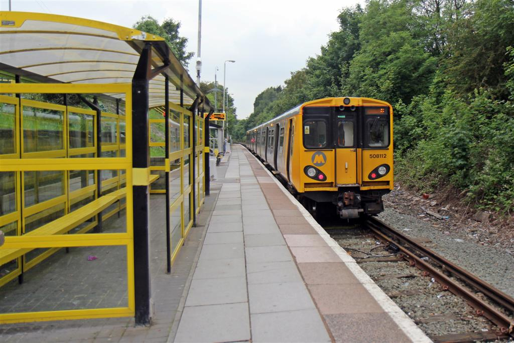 A new journey, Kirkby Railway Station